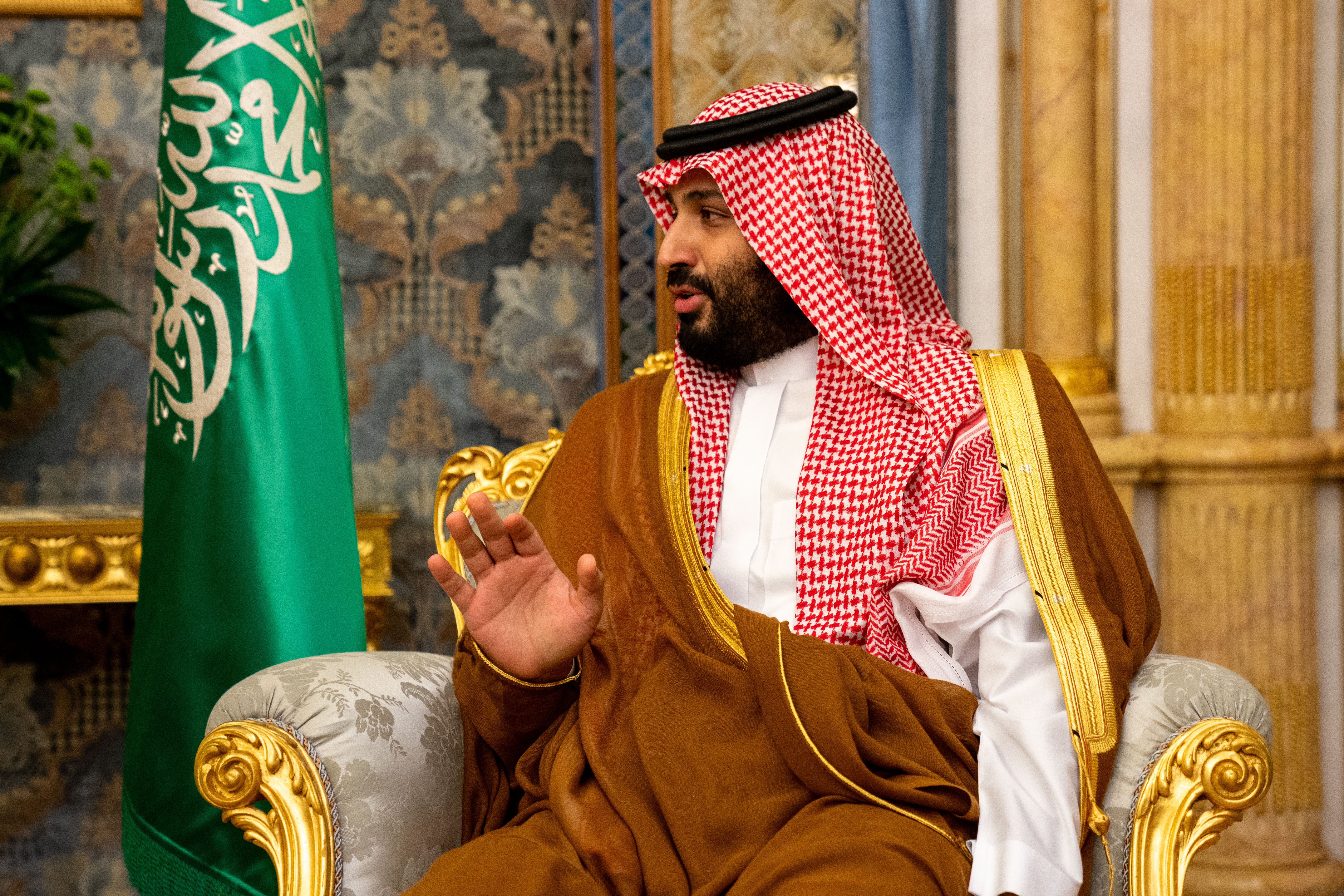 U.S. Secretary of State Michael R. Pompeo meets with Saudi Crown Prince Mohammed bin Salman in Jeddah, Saudi Arabia on September 18, 2019. [State Department photo by Ron Przysucha/ Public Domain]